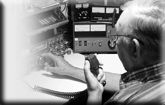 Amateur radio operator with the call sign PU1JFC.